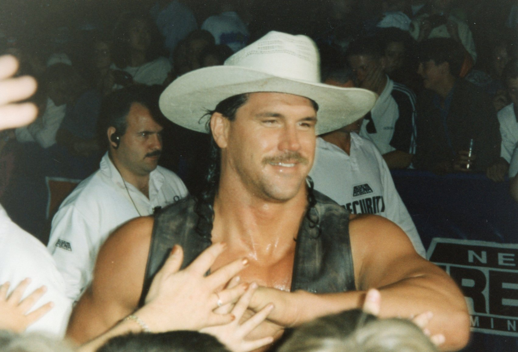 Professional wrestler Mike Polchlopek in character as Bart Gunn of the Smoking Gunns tag team